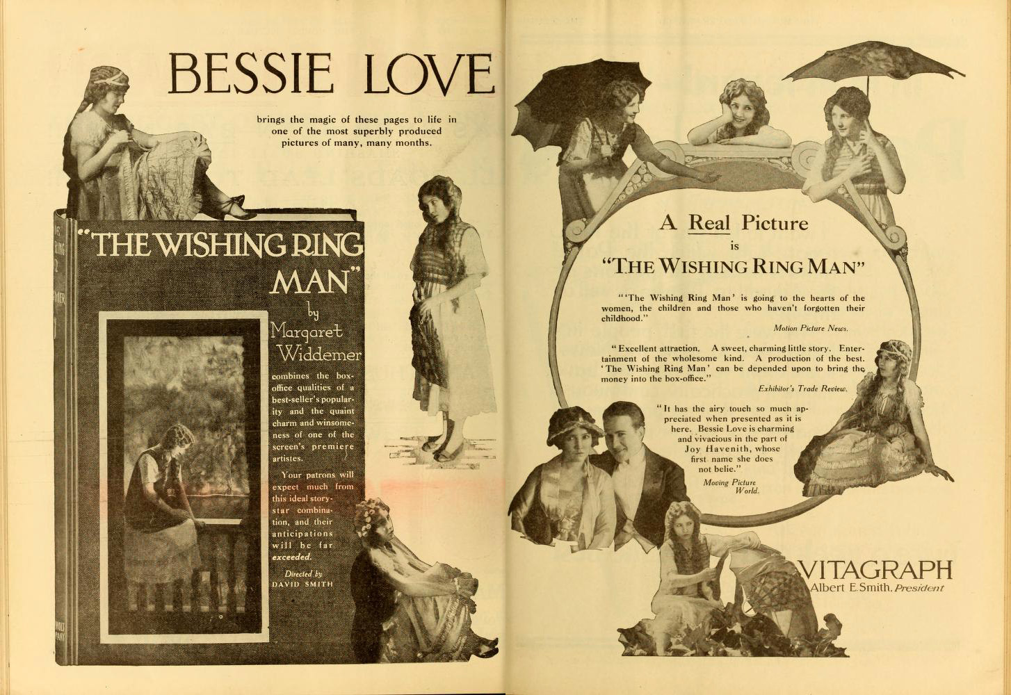 Advertisement in Moving Picture World, March 1919, for the American drama film The Wishing Ring Man (1919).